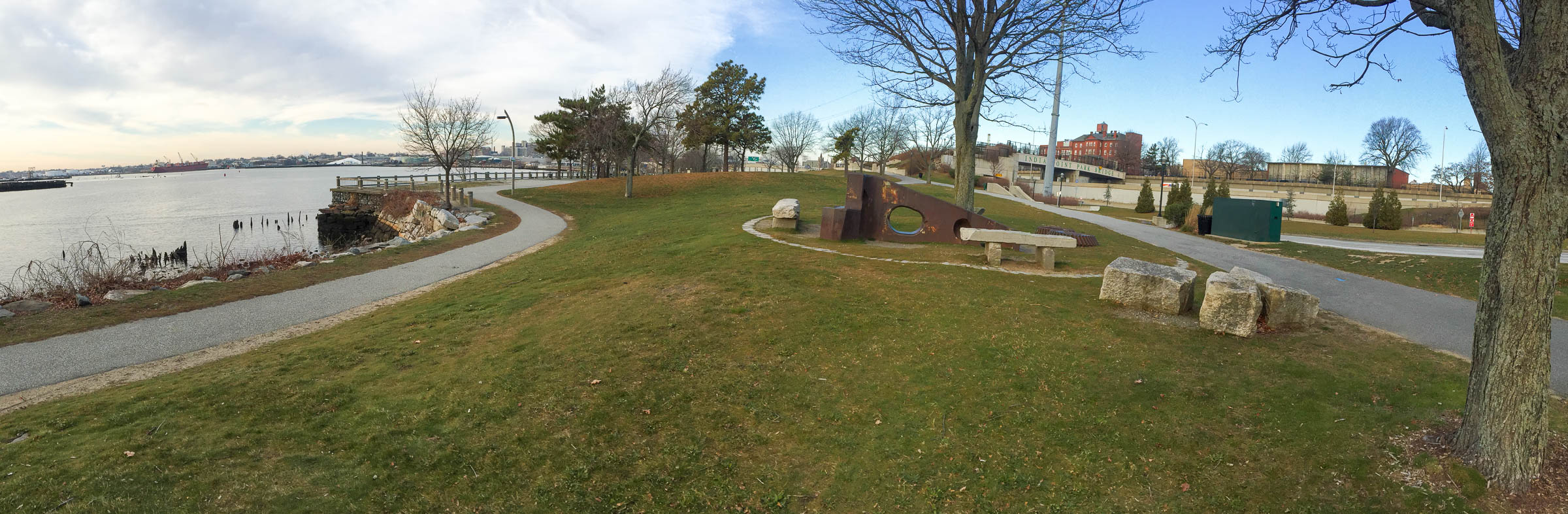 India Point Park Providence RI. iPhone6 panorama.